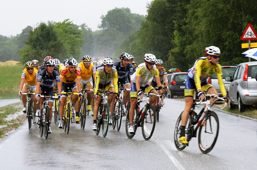 Tour of Denmark 2010 peloton in rain at the village Rye on stage 6. Jakob Fuglsang in yellow jersey (with red on shoulders)in left part of photo.